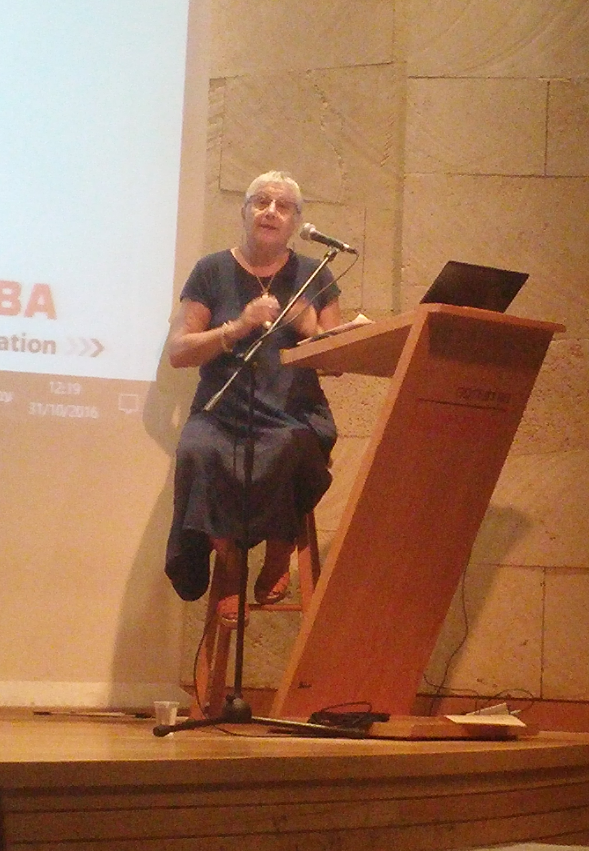 Nitza Yarom, an Israeli clinical psychologist and psychoanalist, Haifa, 2016